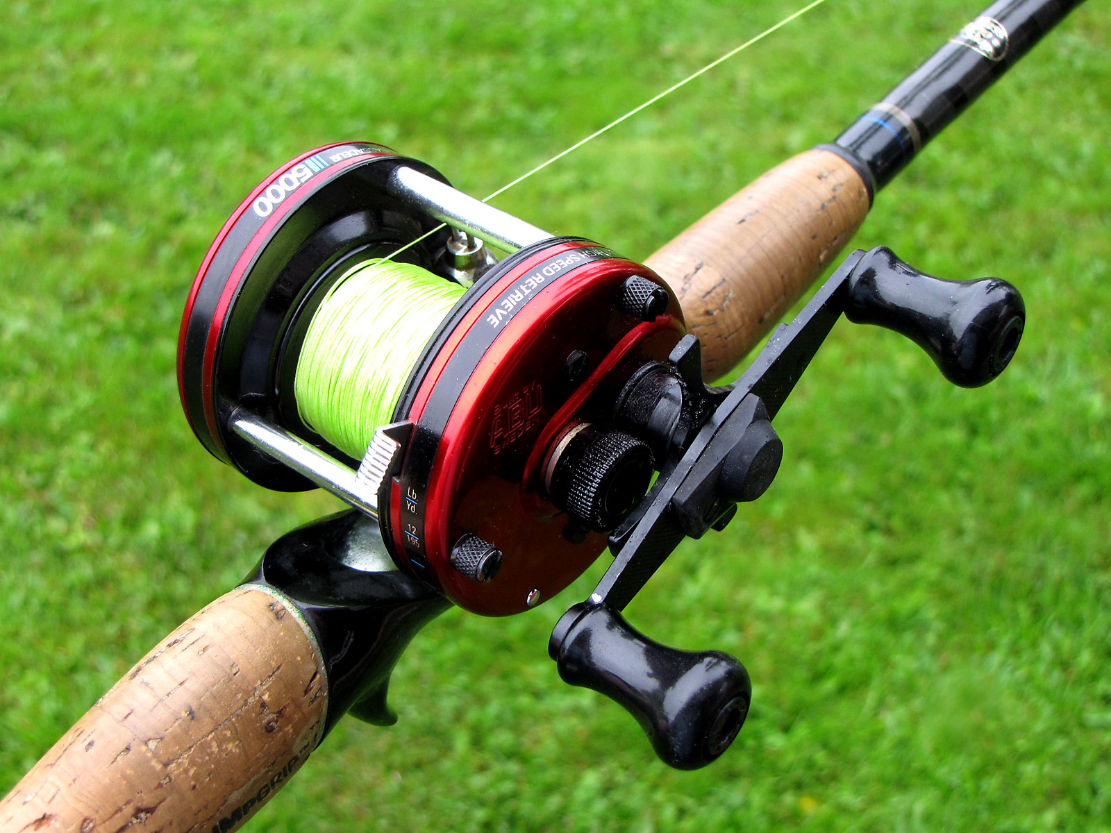 Baitcasting reel made by Abu Garcia.